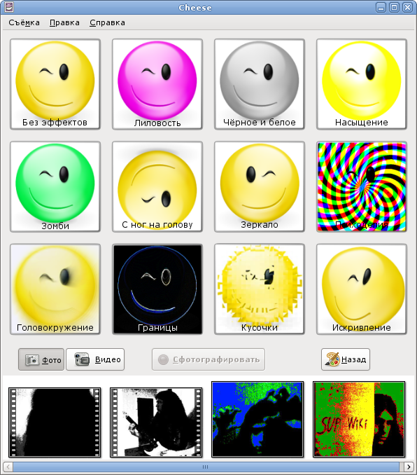 A screenshot of Russian Cheese featuring the effects it provides.